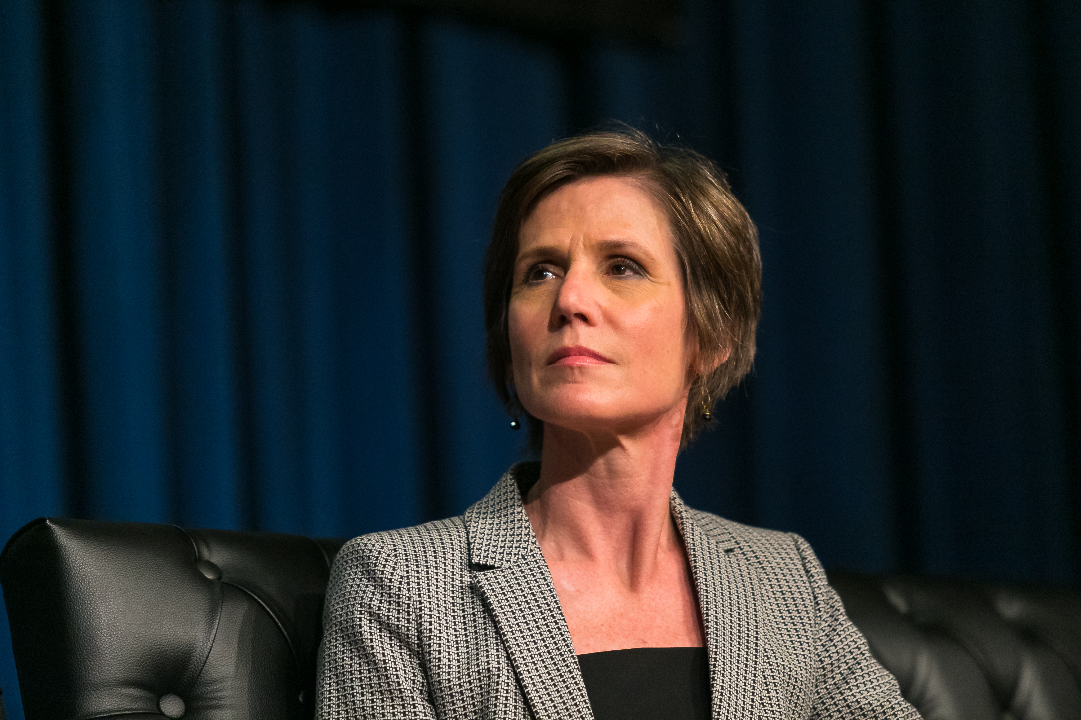 29 April 2016 - Washington, D.C. - The 50th Anniversary of the Federal Bonding Program took place at the Department of Labor. Deputy Attorney General Sally Yates was on hand to address the audience. Official Department of Labor Photograph*** Photographs taken by the federal government are generally part of the public domain and may be used, copied and distributed without permission. Unless otherwise noted, photos posted here may be used without the prior permission of the U.S. Department of Labor. Such materials, however, may not be used in a manner that imply any official affiliation with or endorsement of your company, website or publication.